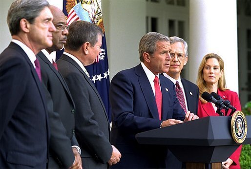 President George W. Bush announces the White House conference on Missing, Exploited and Runaway children in the Rose Garden Aug. 6. Standing with him are, from left to right, FBI Director Robert Mueller, Education Secretary Rod Paige, Attorney General John Ashcroft, and Ernie Allen and Carolyn Atwell-Davis from The National Center for Missing and Exploited Children. White House photo by Tina Hager